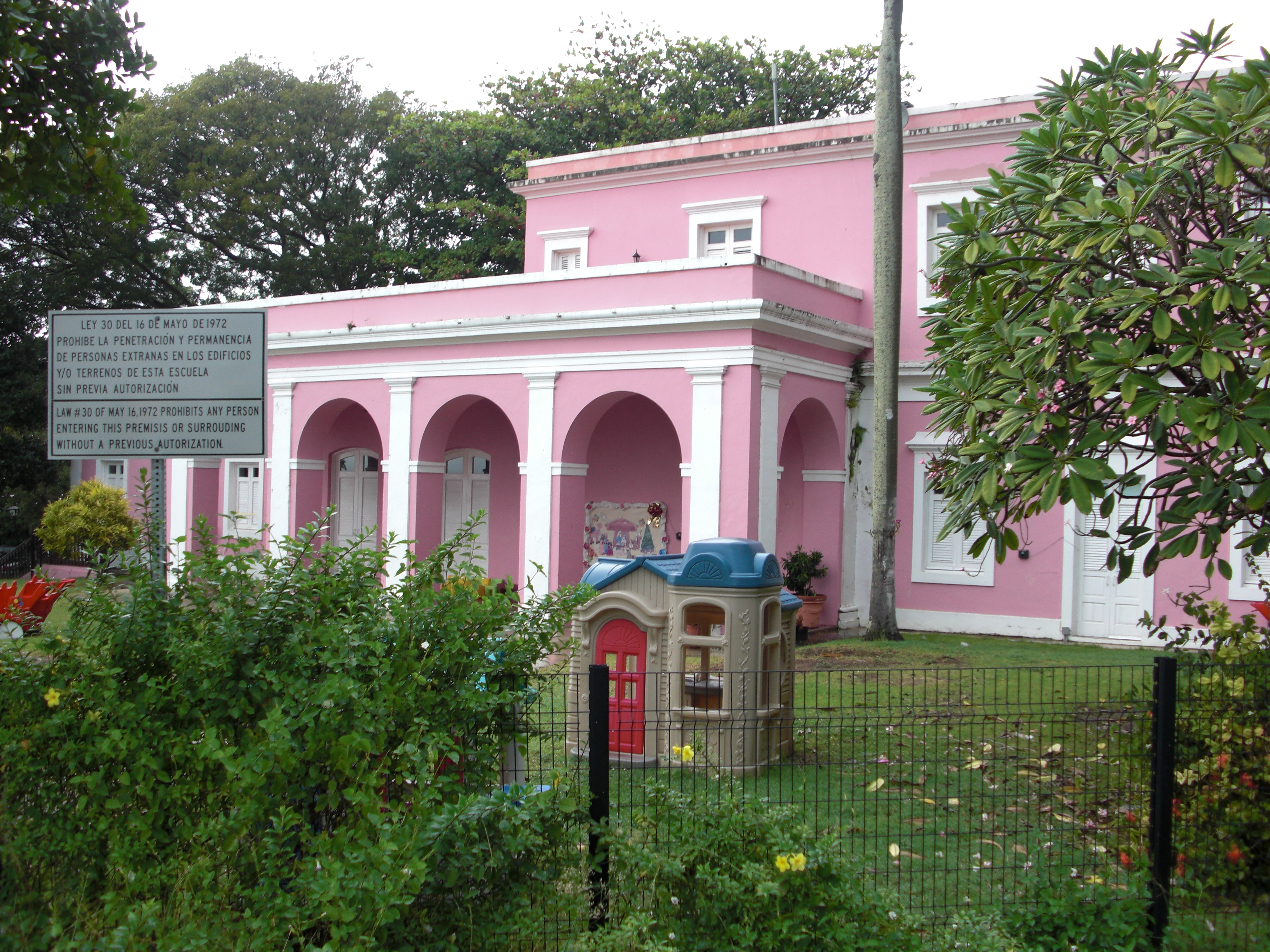 The Casa Rosa, a historic building in San Juan, Puerto Rico.